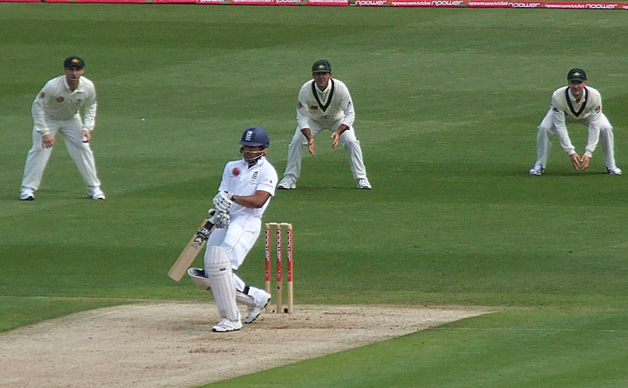 A cricket ball in the throat is NEVER a good thing.... No lasting damage it seemed.